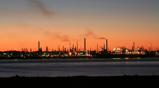 Fawley Oil Refinery at dusk. Looking west across Southampton Water from the Solent Way south of Newtown. The refinery covers 4 sq km. The Marine Terminal is foreground right with a ship moored.